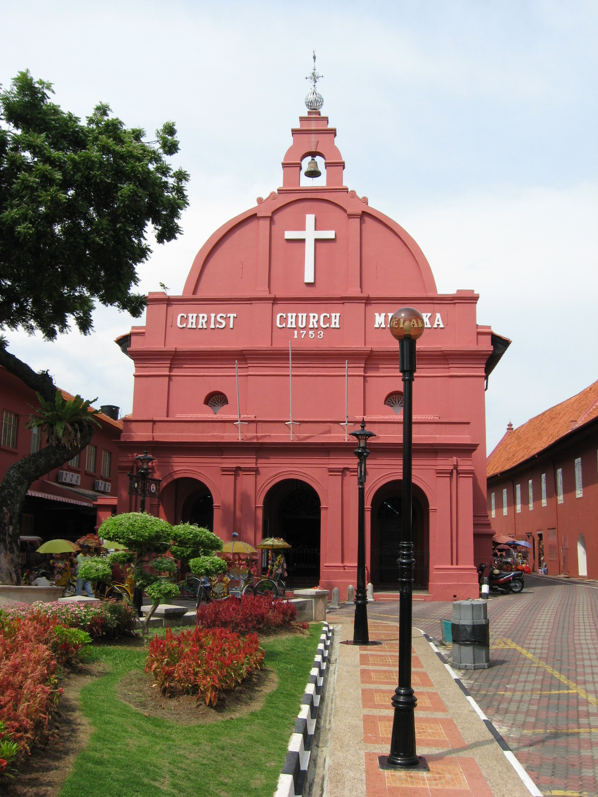 First Church of Melaka, that was built by the Dutch in 1753.